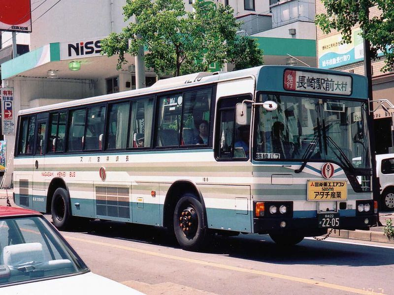 Nagasaki Ken-ei Bus 1E18 Mitsubishi P-MP618MT About 1993 at Isahaya City. Photo by Cassiopeia_sweet.